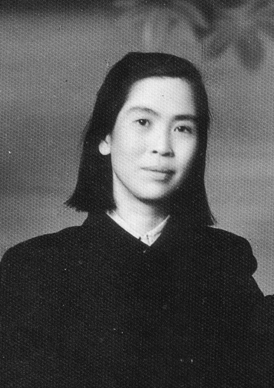 Picture of He Zizhen in Shenyang.